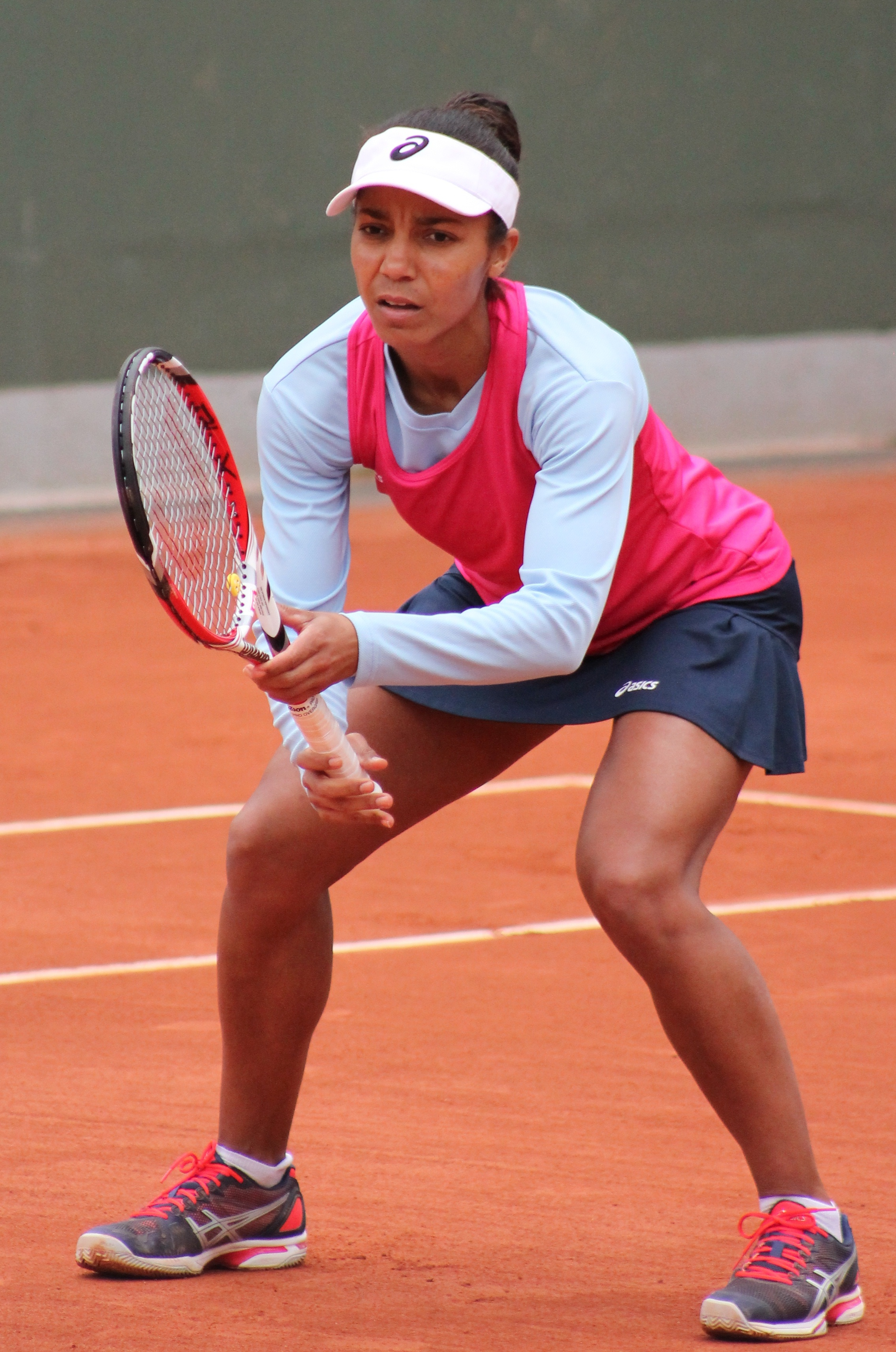 Kops Jones RG13